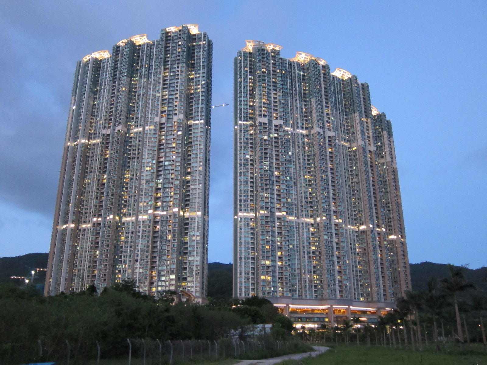 Le Prestige